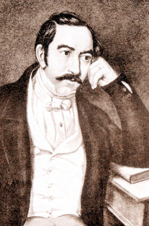 Jovan Hadžić (1799-1869)